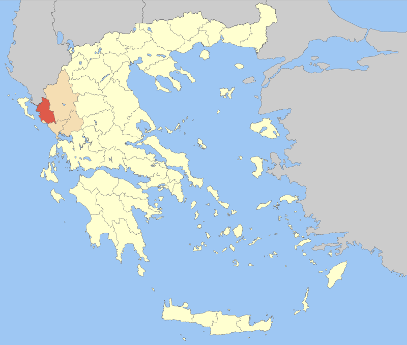 Locator map of Thesprotia prefecture (Νομός Θεσπρωτίας) in Greece